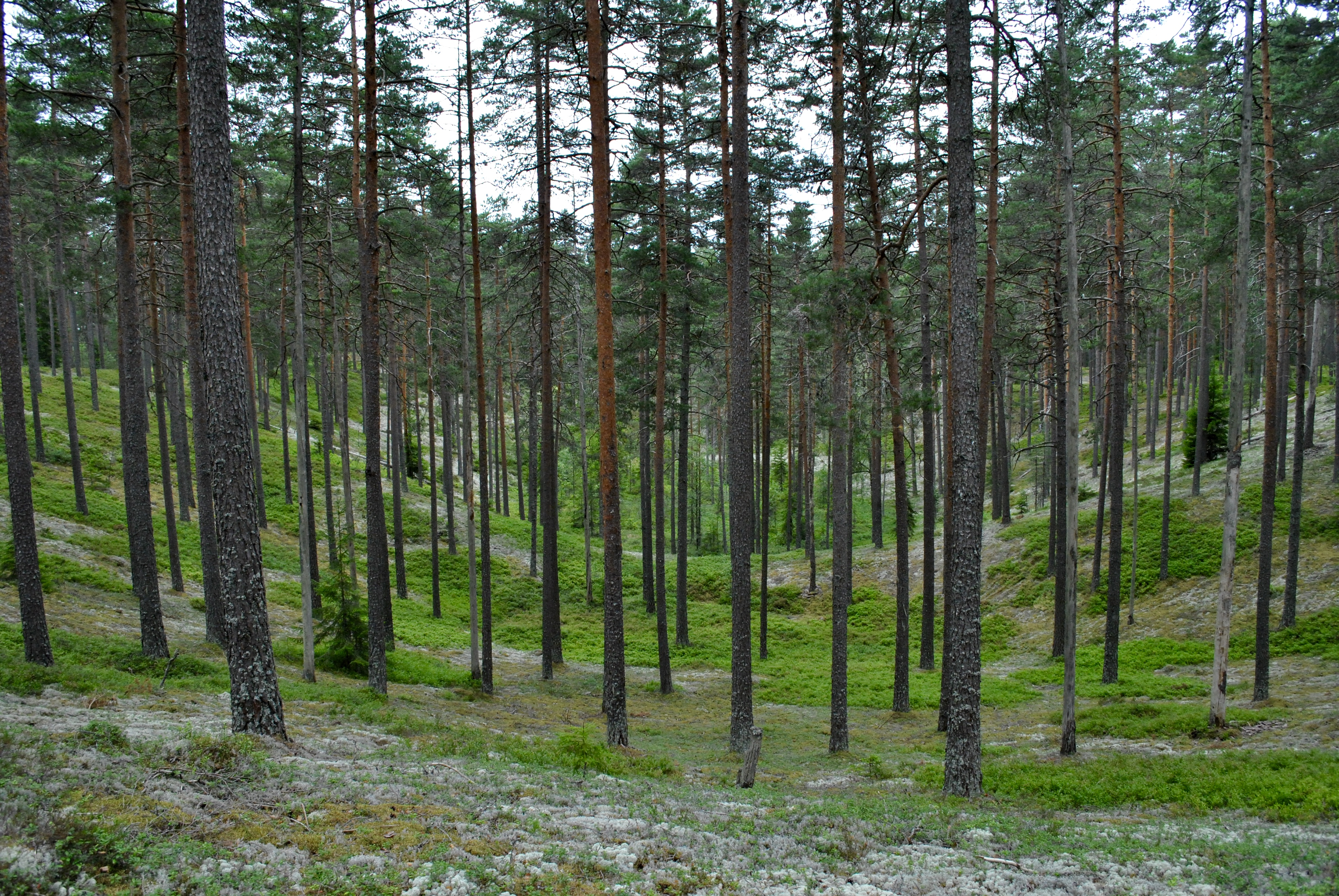 Kettle without water, Kittelfltet, Brattforsheden, Sweden